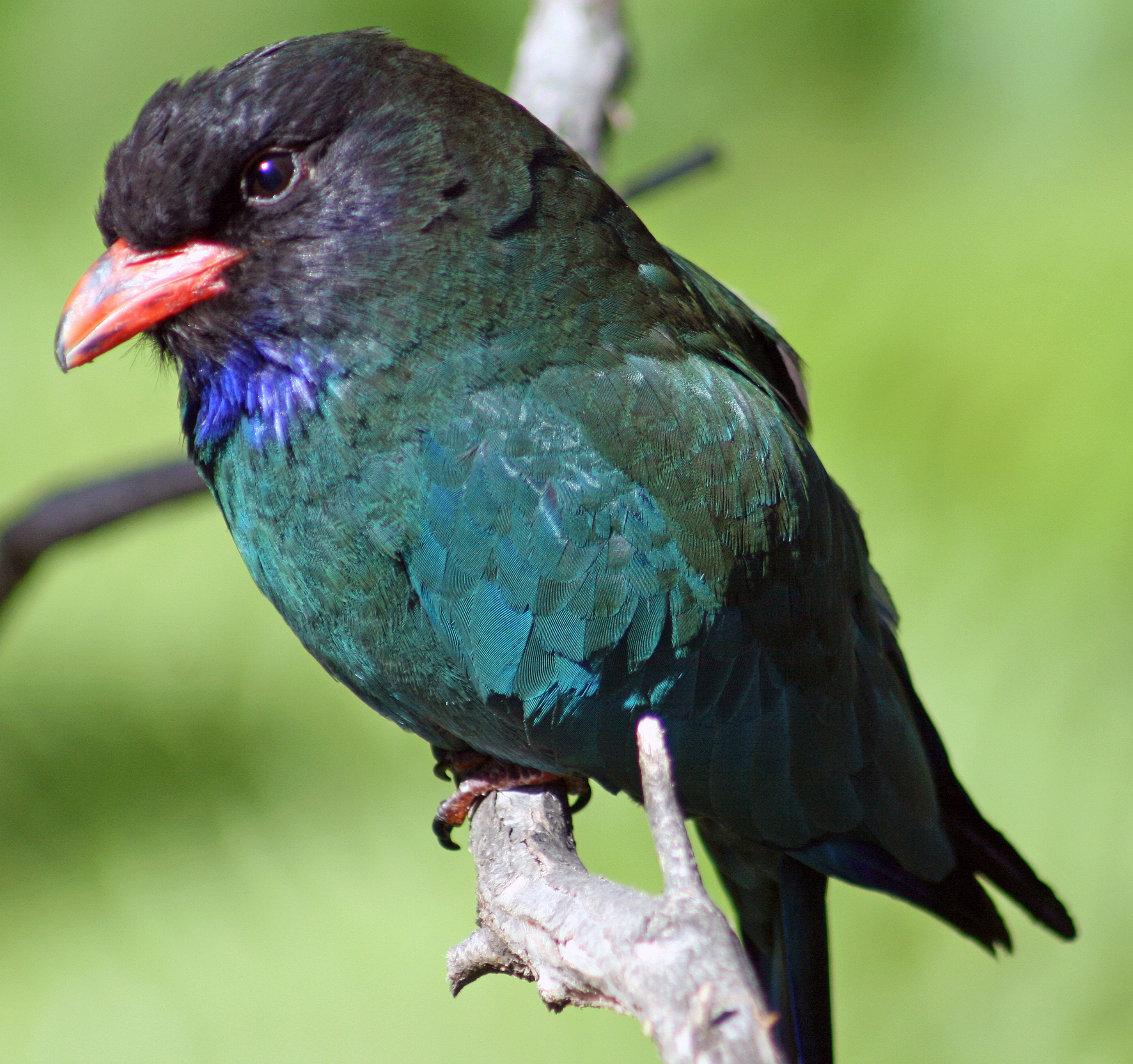 Eurystomus orientalis at the San Diego Zoo, USA.